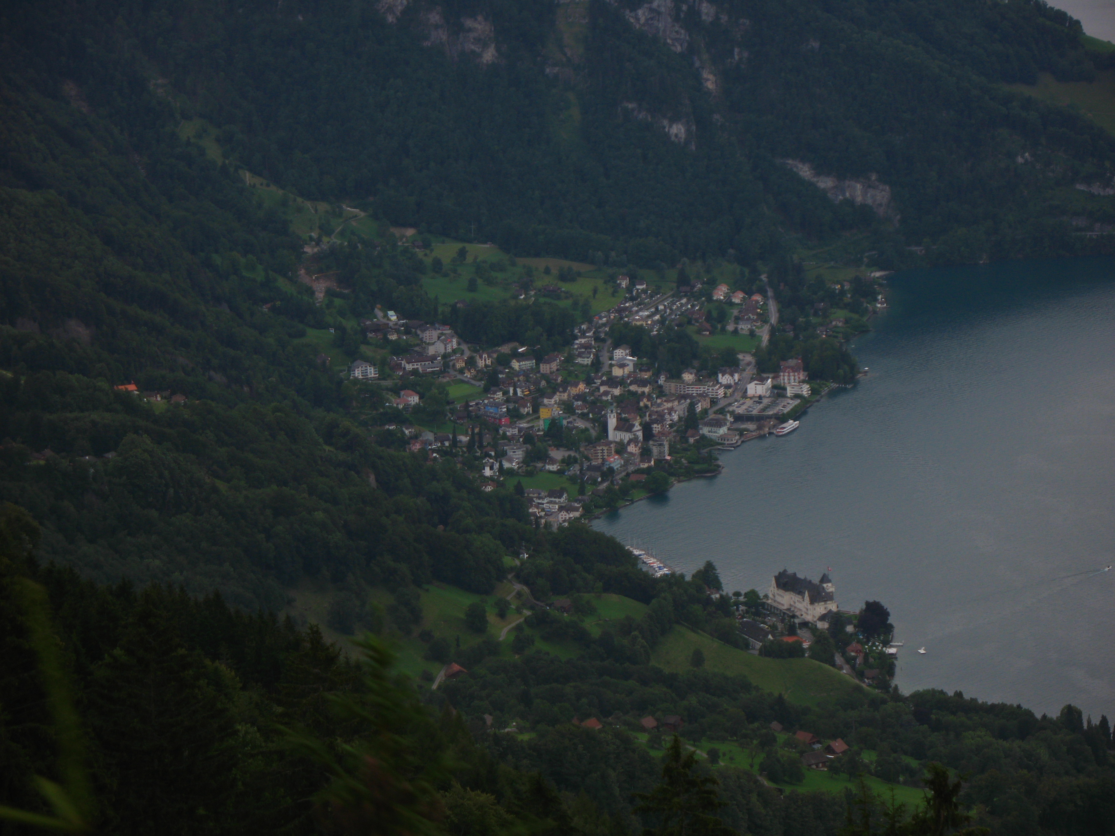 Vitznau viewed from the aerial tramway, Weggis-Rigi Cold Baths, Switzerland